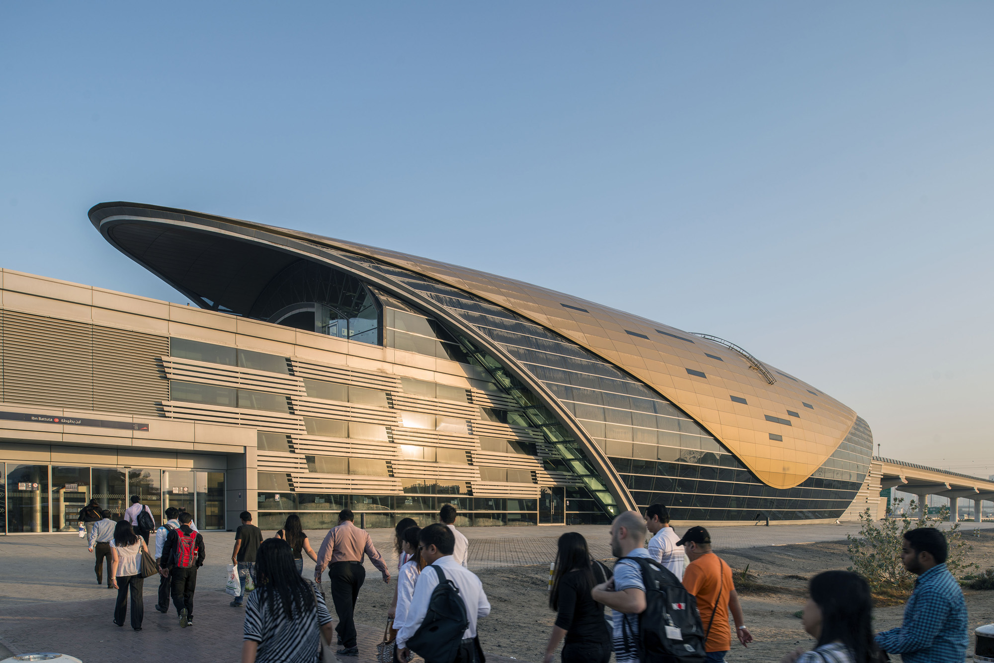 Ibn Battuta Station (Dubai Metro) is along the Red Line. Ibn Battuta is located in Jebel Ali